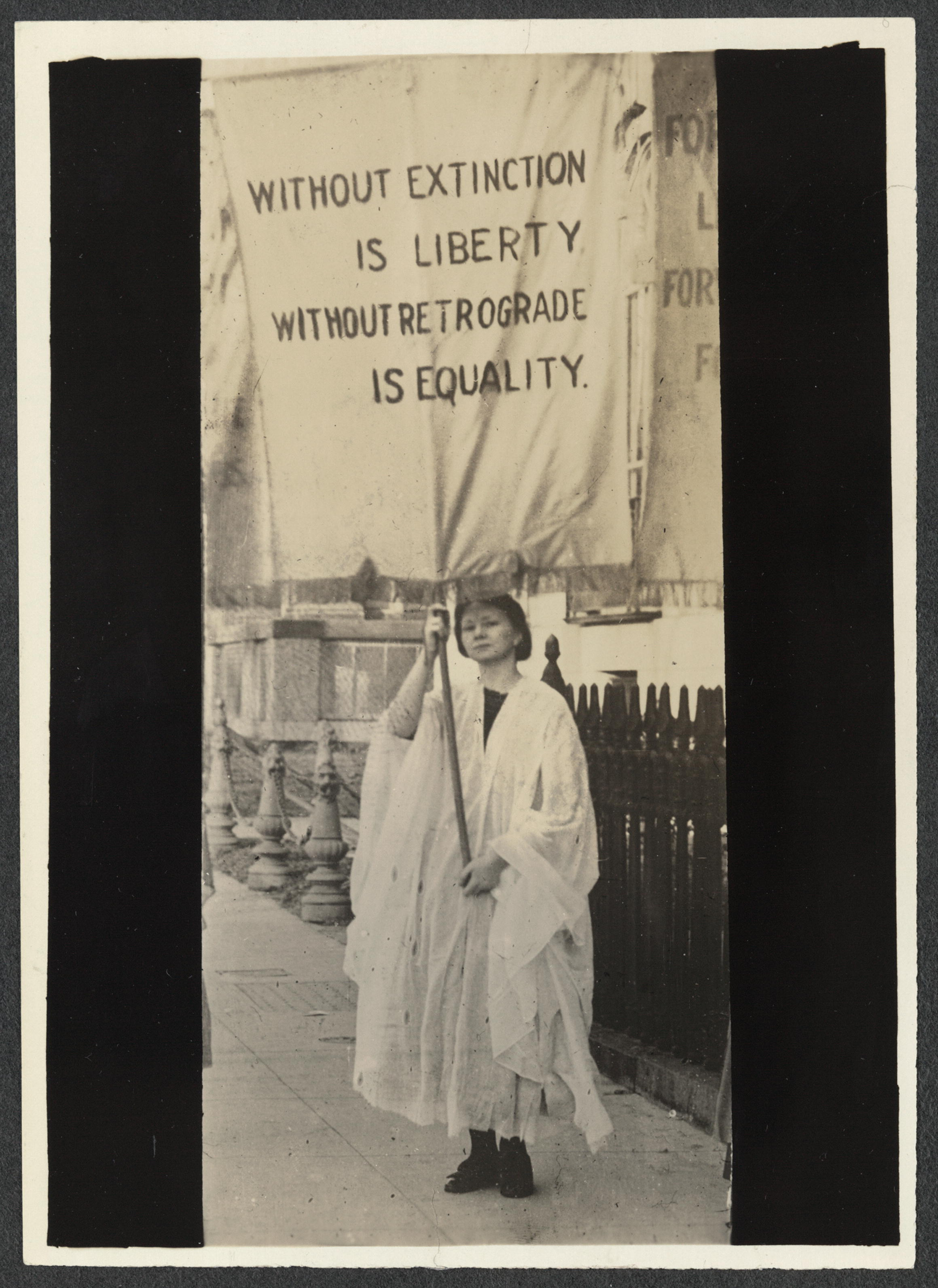 Informal portrait, full-length, Joy Young, facing forward, standing outdoors on sidewalk with banner, "Without Extinction is Liberty, Without Retrograde is Equality," wearing white gown over her clothes. Joy Young of New York City, formerly of Washington, D.C., was the wife of Merrill Rogers. She worked as an assistant on the staff of The Suffragist and later became an organizer for the NWP in various parts of the country. She was arrested picketing July 4, 1917, and served three days in District Jail. Source: Doris Stevens, Jailed for Freedom (New York: Boni and Liveright, 1920), 371.